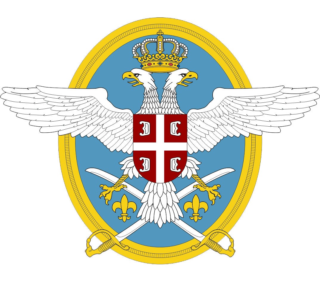 Serbian Air Force and Air Defence